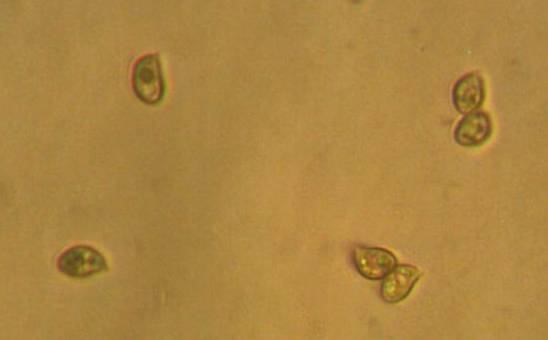 Spores of the agaric fungus Mythicomyces corneipes (Fr.) Redhead & A.H. Sm.